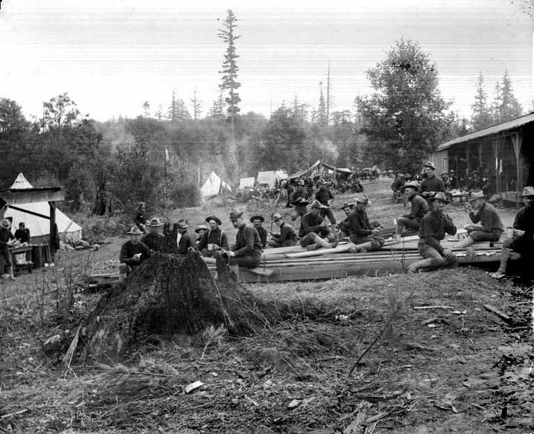 Part of a series depicting troops assembling at Fort Lawton before embarking to China for the Boxer Rebellion . Peiser 10097 Subjects (LCTGM): Soldiers--Washington (State)--Seattle; Military camps--Washington (State)--Seattle; Rest periods--Washington (State)--Seattle; United States. Army--People--Washington (State)--Seattle; United States. Army--Facilities--Washington (State)--Seattle